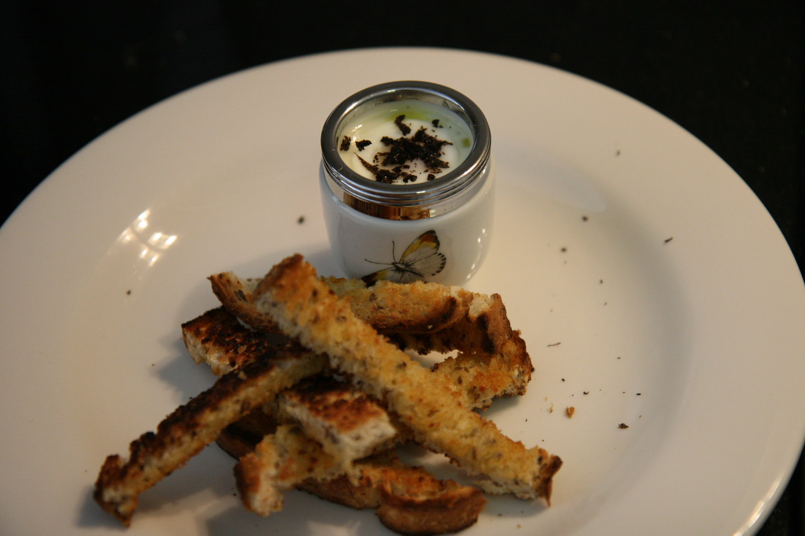 The eggs had been stored with the truffle overnight. The egg coddler was greased with truffle oil and grated truffle was sprinkled on top.